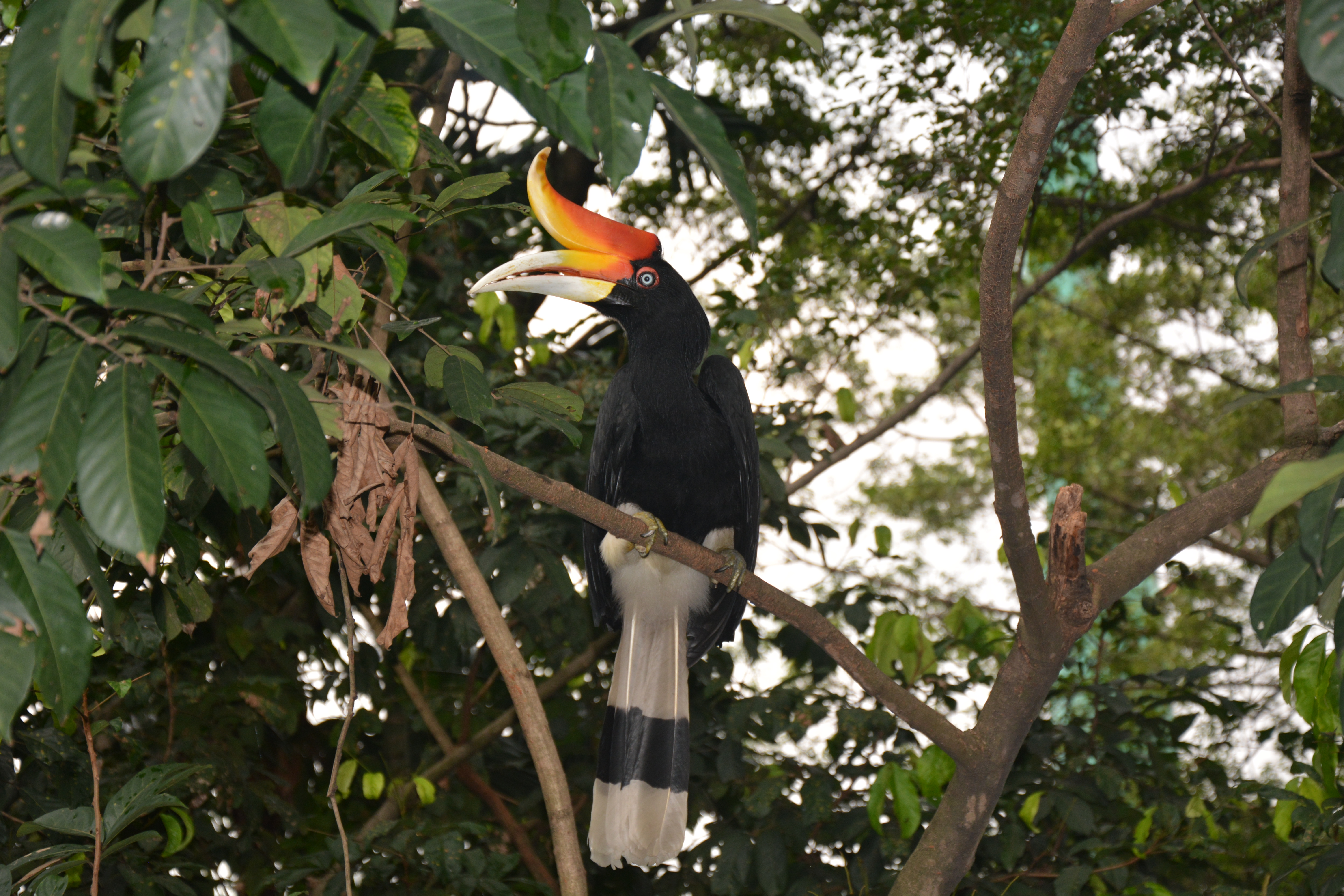 Buceros rhinoceros at Kuala Lumpur Bird Park, Malaysia